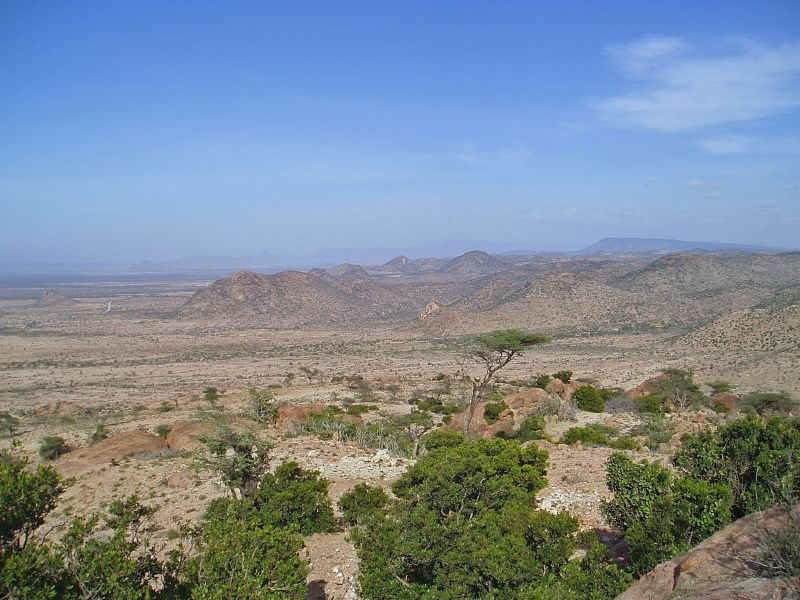 Summit view in Somalia